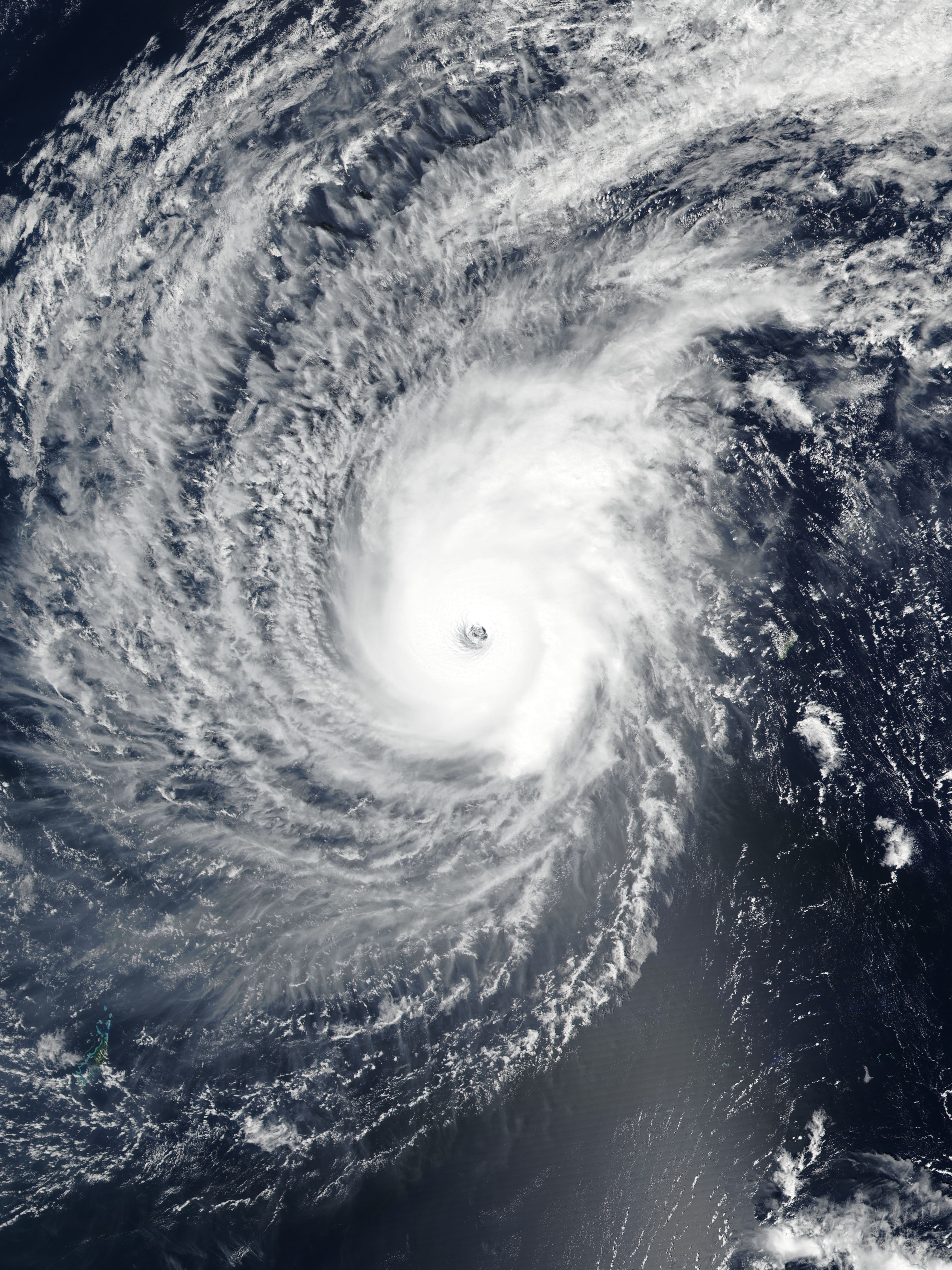 Typhoon Wutip at peak intensity west of Guam on February 25, 2019.